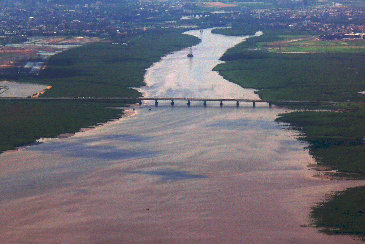 A pretty bad photograph of the Airoli bridge taken from a plane while flying into Mumbai Airport.